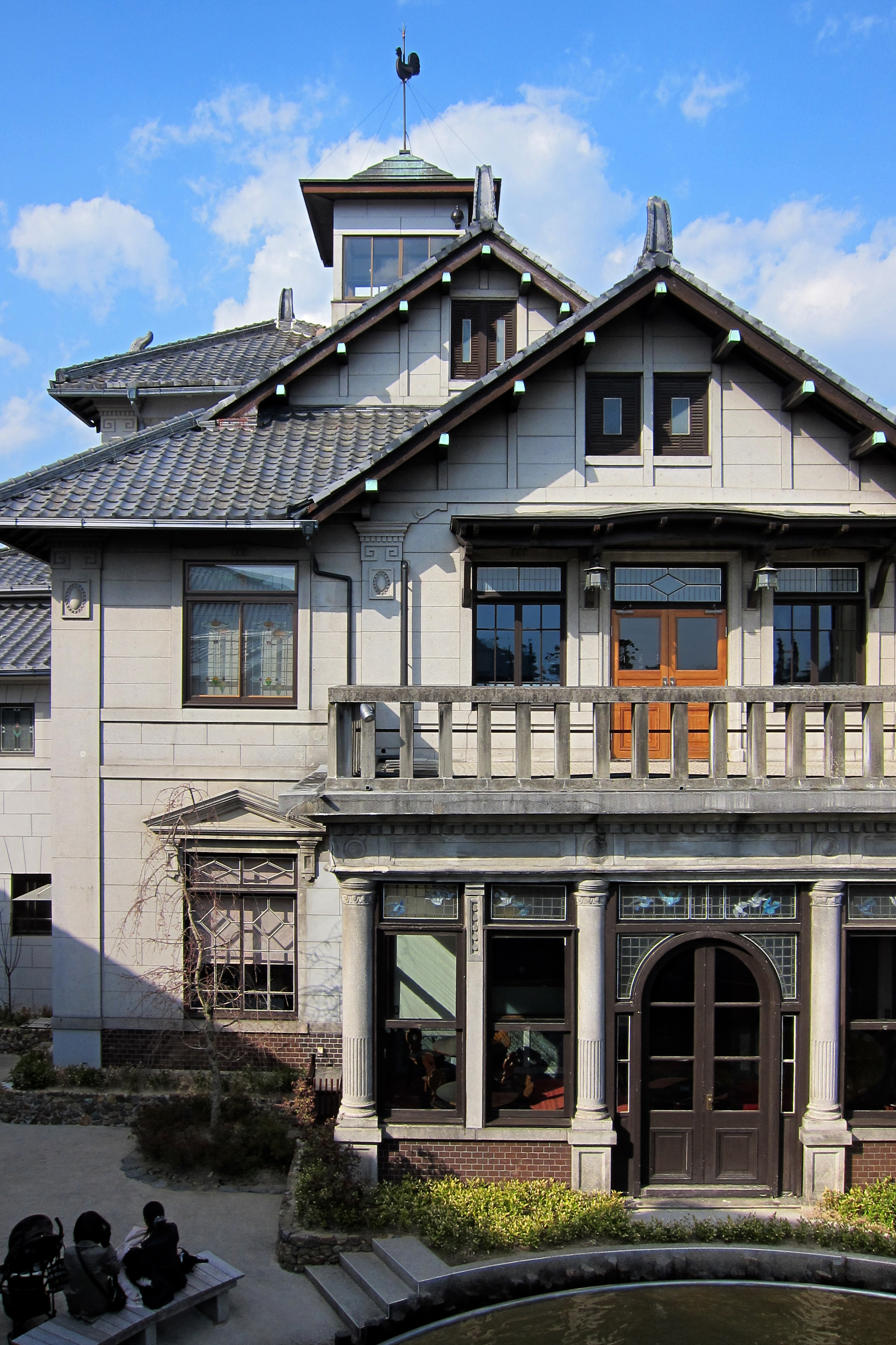 Goryukaku (五龍閣), in Kyoto, Kyoto Prefecture, Japan.